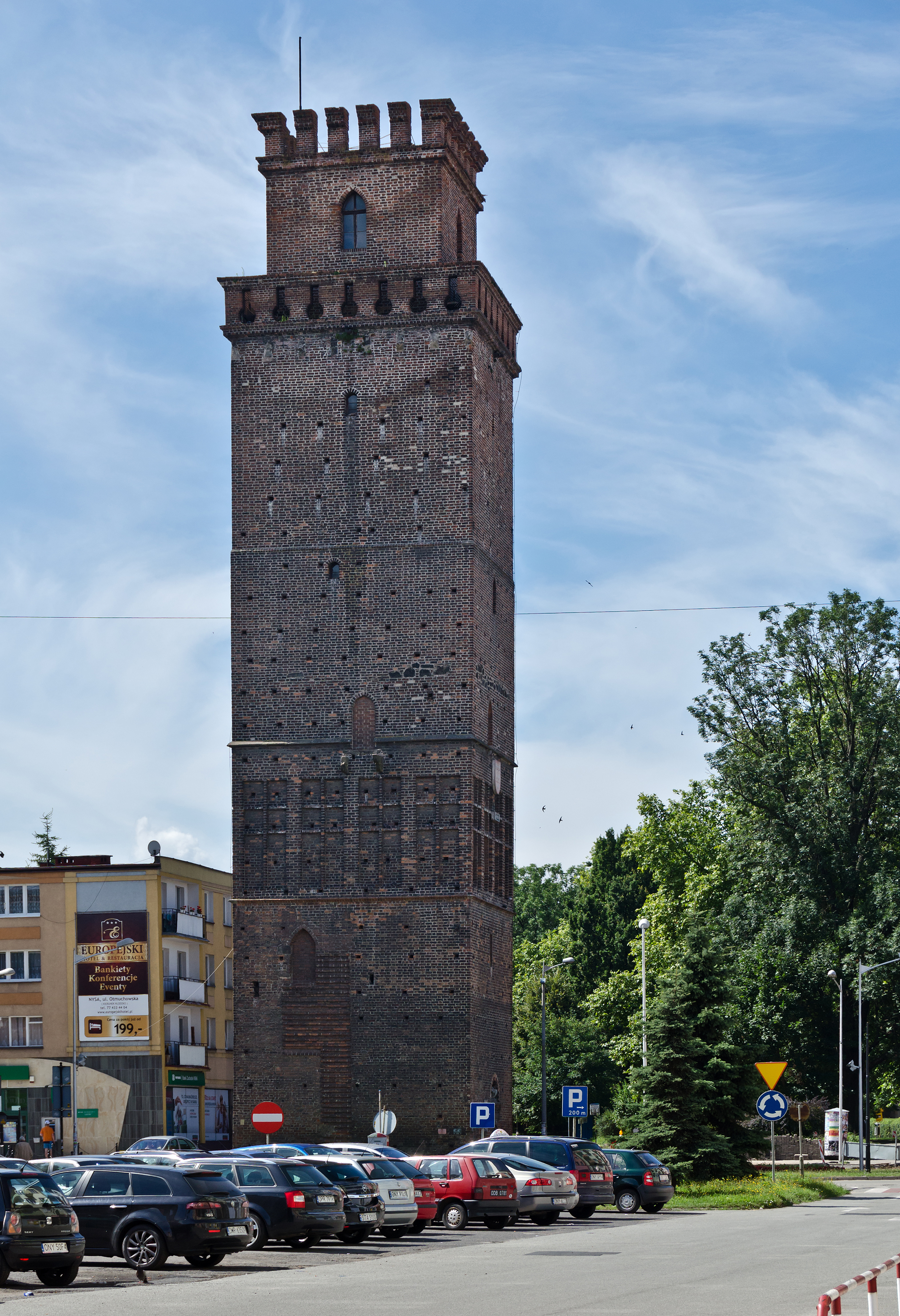 Ziębicka Gate in Nysa